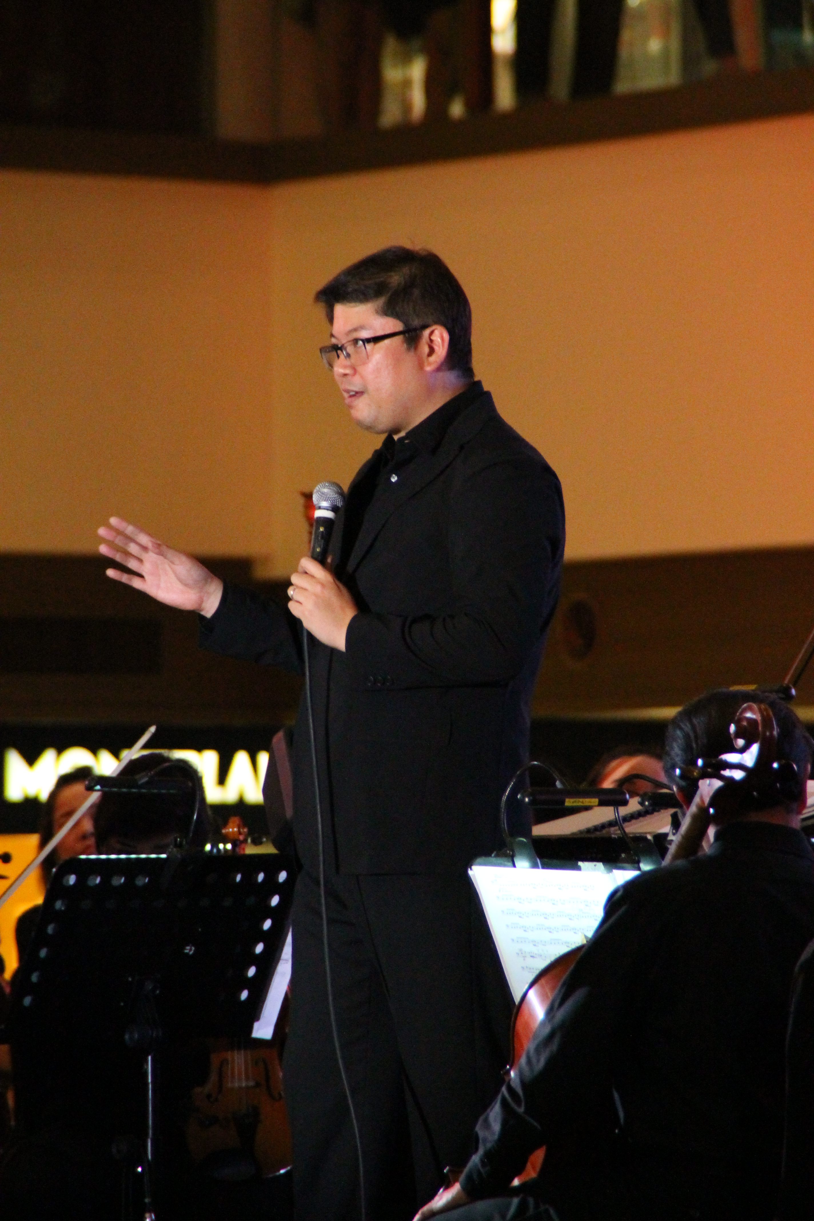 Gerard Salonga giving a talk at a concert with the ABS-CBN Philharmonic Orchestra